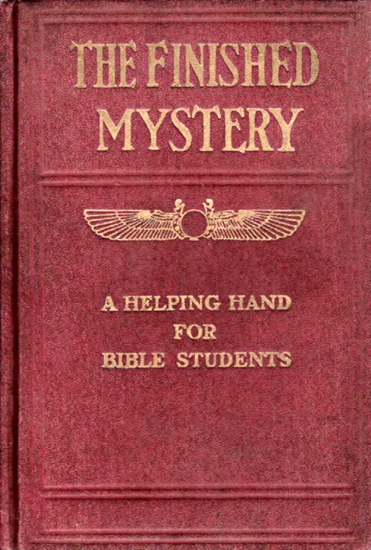 Scan of the cover for "The Finished Mystery", published in the United States in 1917.